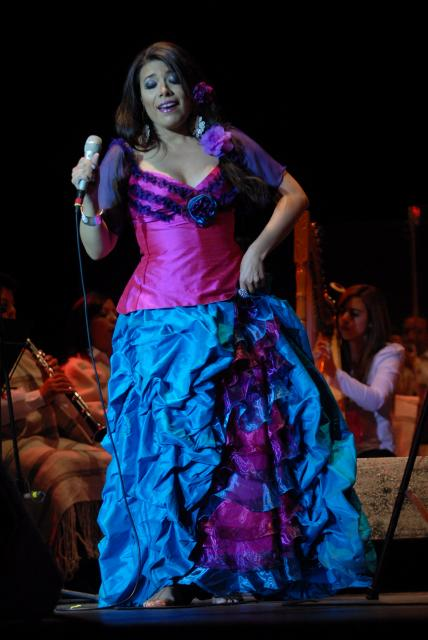 GEO Meneses